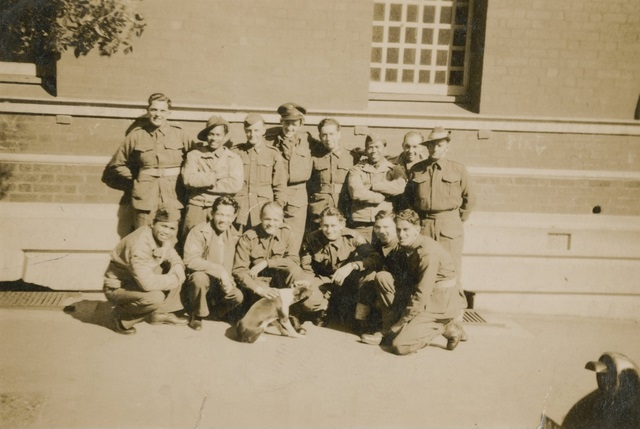 Group portrait of members of a Services Reconnaissance Department (SRD) signals training group. The group is comprised of a number of people, including NX143314 Sergeant (Sgt) Leonard George (Len) Siffleet, and perhaps the Ambonese who were with him when he was later captured. The training involved being aware of each other's technical idiosyncrasies when using morse code in case the cipher codes fell into enemy hands. A skilled user could discern a different user by their technique. Sgt Siffleet is in the back row, far left, and Richard (Dick) Bailey is probably in the back row, far right. On 24 October 1943, Sgt Siffleet, along with two Ambonese companions, was executed by order of Japanese Vice Admiral Kamada, in command of the Japanese fleet at Aitape, for his role as a wireless operator in a commando operation in Japanese occupied New Guinea. Sgt Siffleet was a member of the M Special Unit of the SRD.